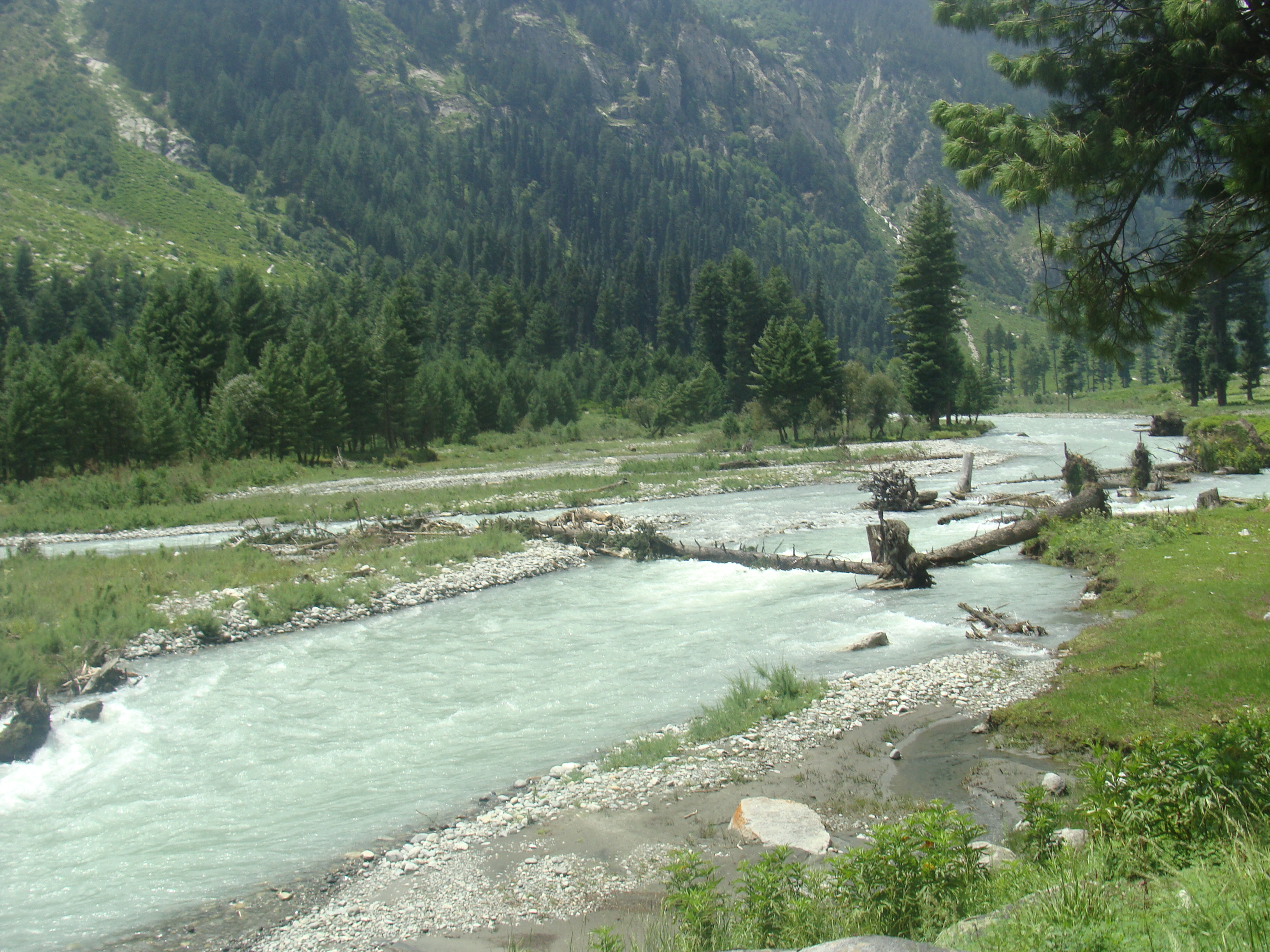 Natural beauty of Kumrat Vally